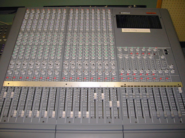 TASCAM M-2600